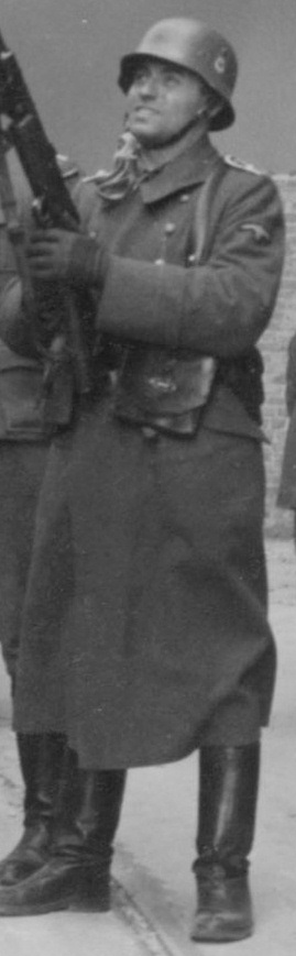 Stroop Report: a report written by Jürgen Stroop for Heinrich Himmler about liquidation of Warsaw Ghetto in May 1943.